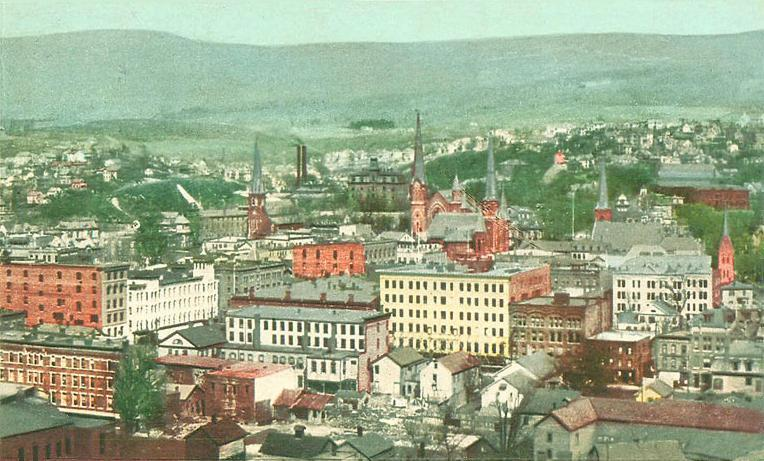 Bird's-eye View of North Adams, MA; from a 1905 postcard published by the Detroit Photographic Company.